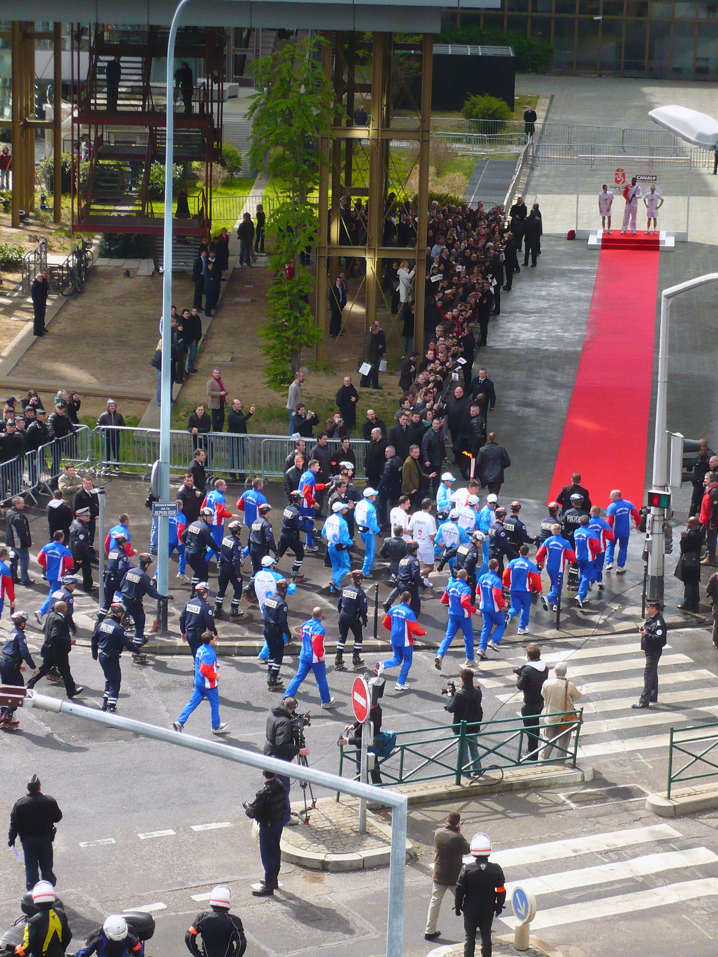 Olympic torch relay 2008 at Boulogne-Billancourt, with police escort. Unseen are the many hundreds of other security guards and policemen as well as their cars and boats (on the Seine, a few metres away to the left).